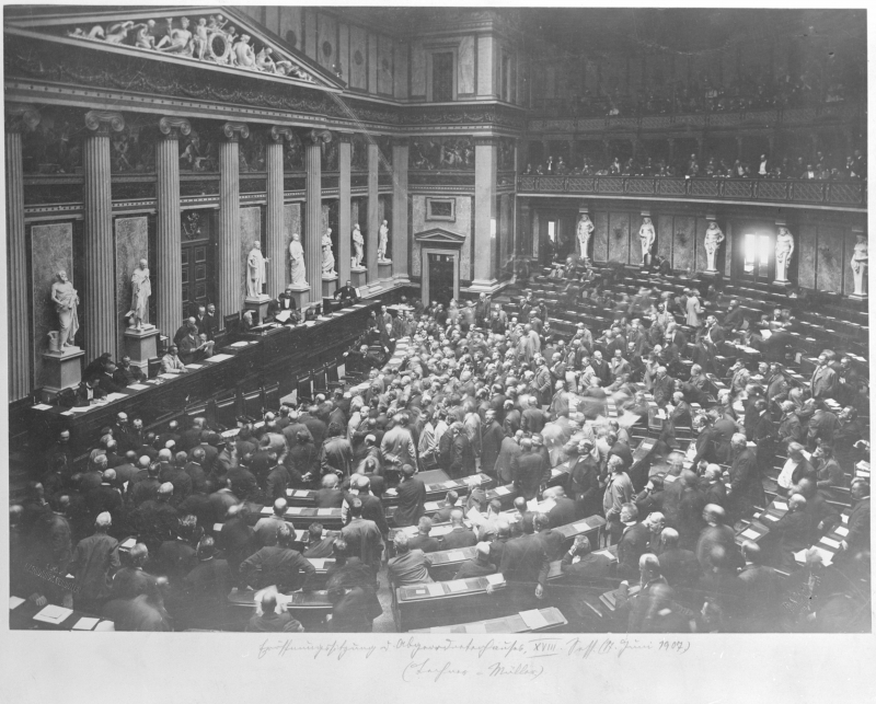 Opening of the XVIII session of the House of Deputies of the Imperial Council (Austria), 1907